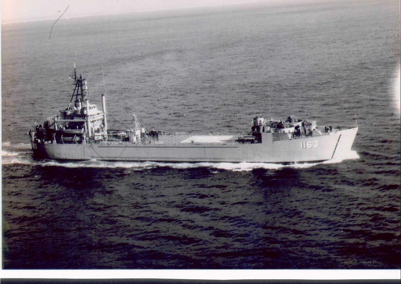 United States Navy landing ship tank USS Waldo County (LST-1163) in the Caribbean ca. 1970